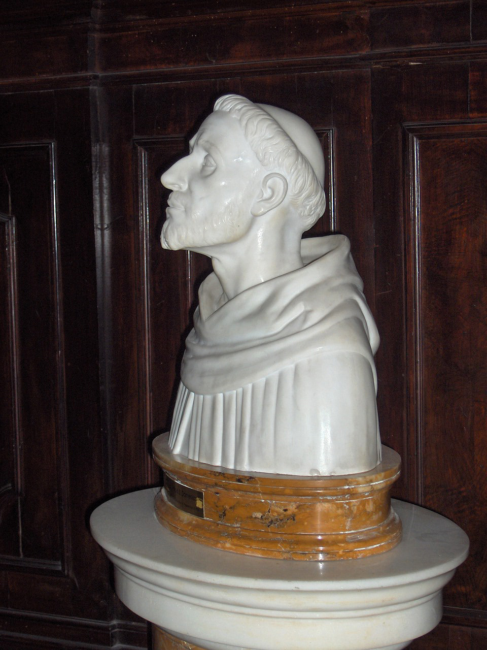 "Saint Dominic's real face", marble bust by Carlo Pini (made according to anthropometric measurements of the skull of the saint) (Basilic of Saint Dominic, Bologna, Italy)